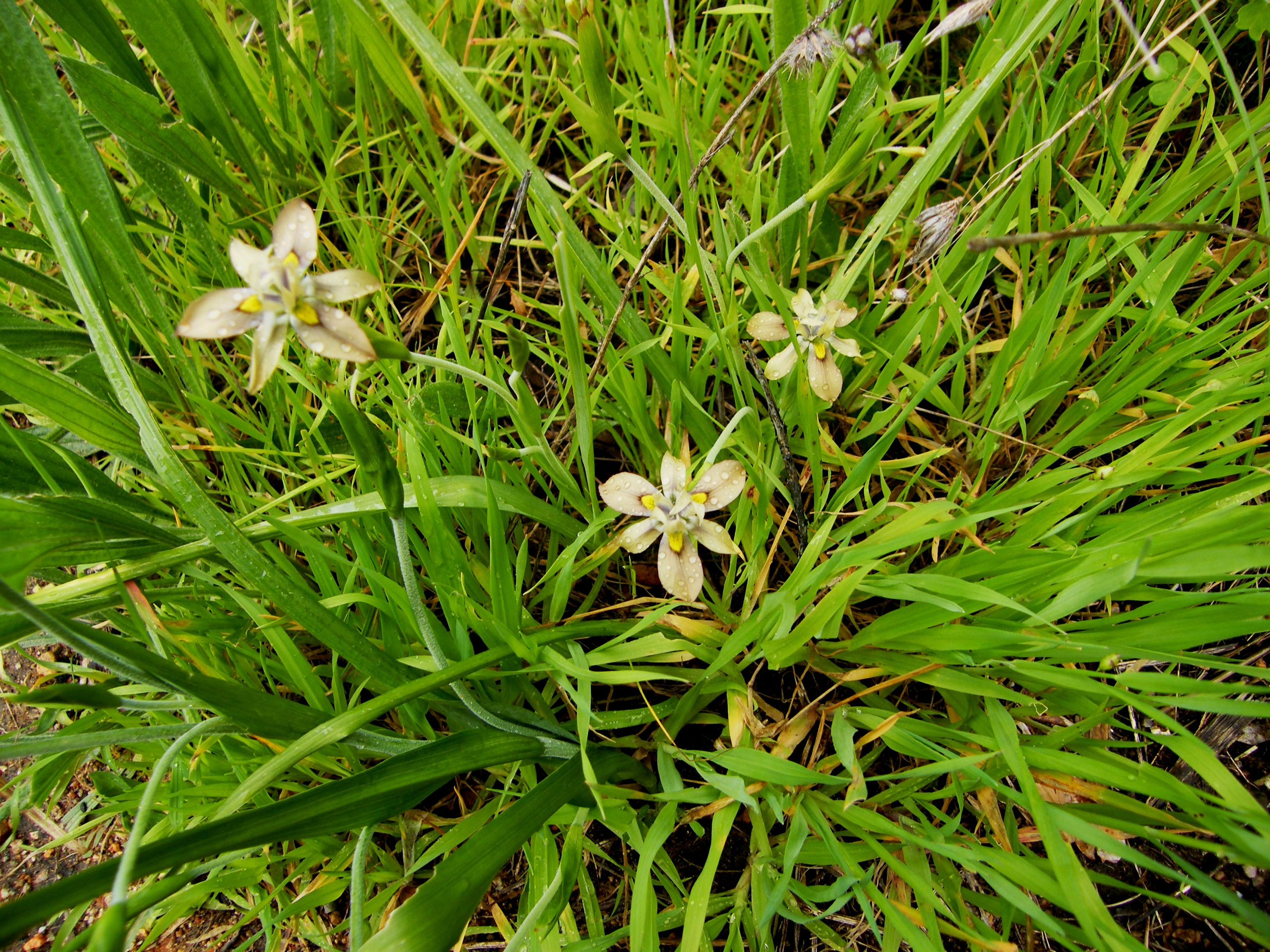 Moraea vegeta